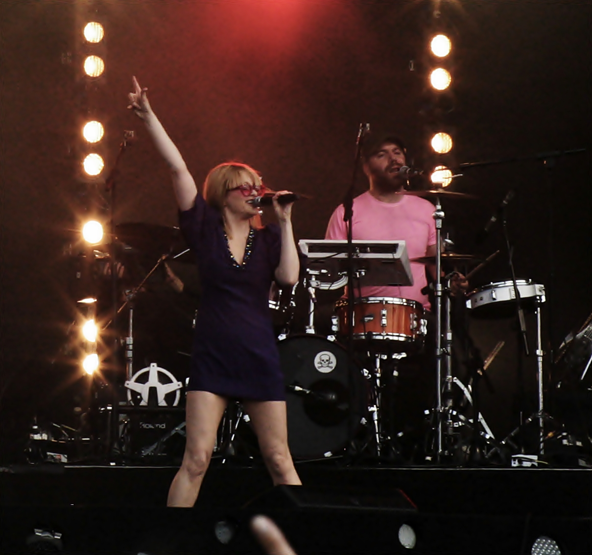 Goldfrapp at the Wireless Festival 2006 in London, Hyde Park